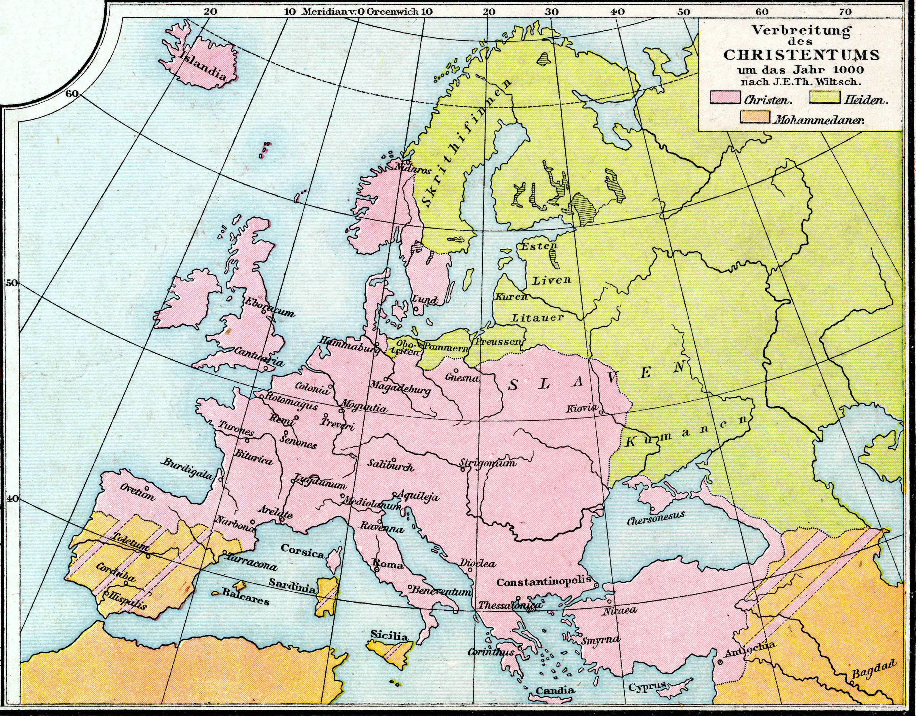 Small map from plate 23 of Professor G. Droysens Allgemeiner Historischer Handatlas, published by R. Andrée.